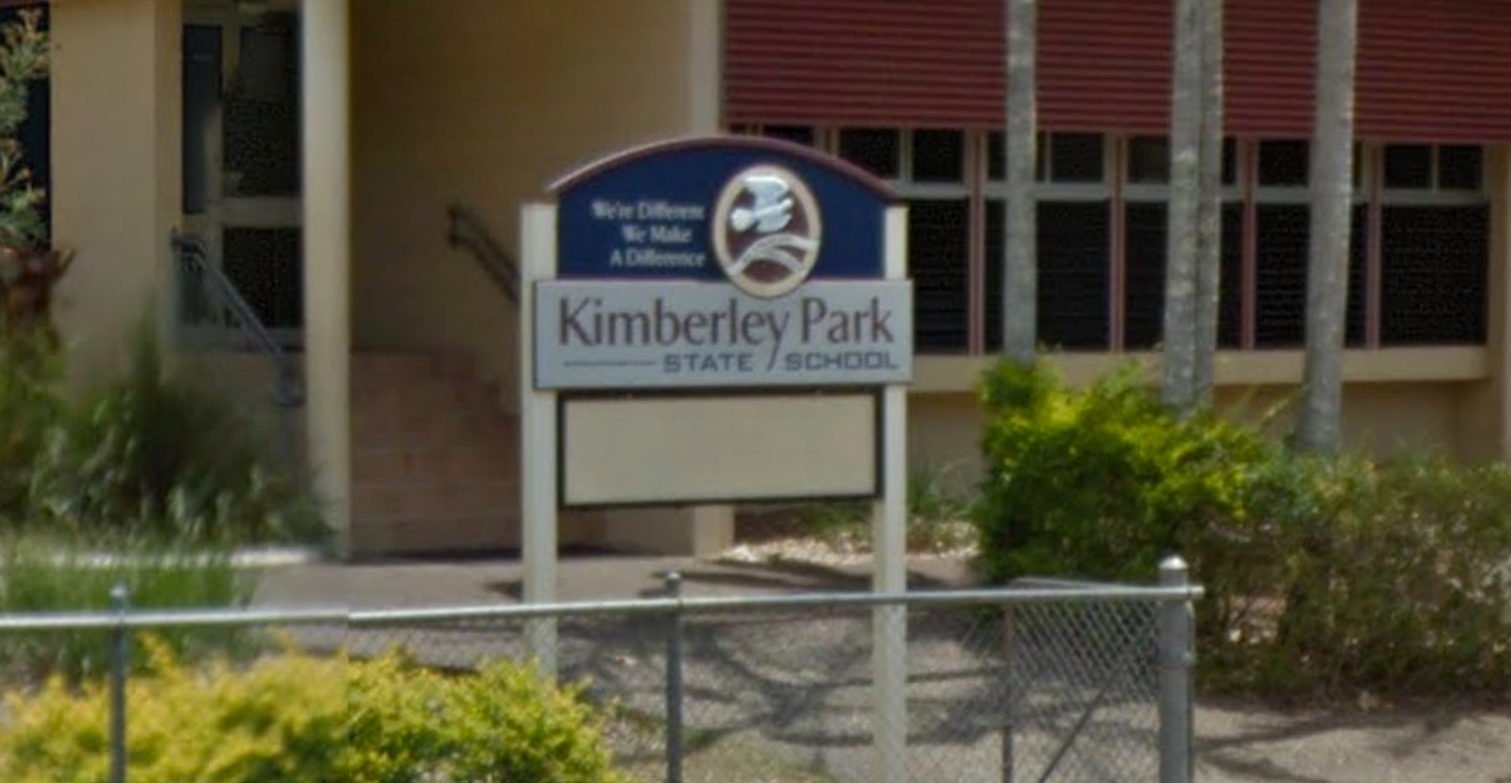 Kimberley Park State School front Sign